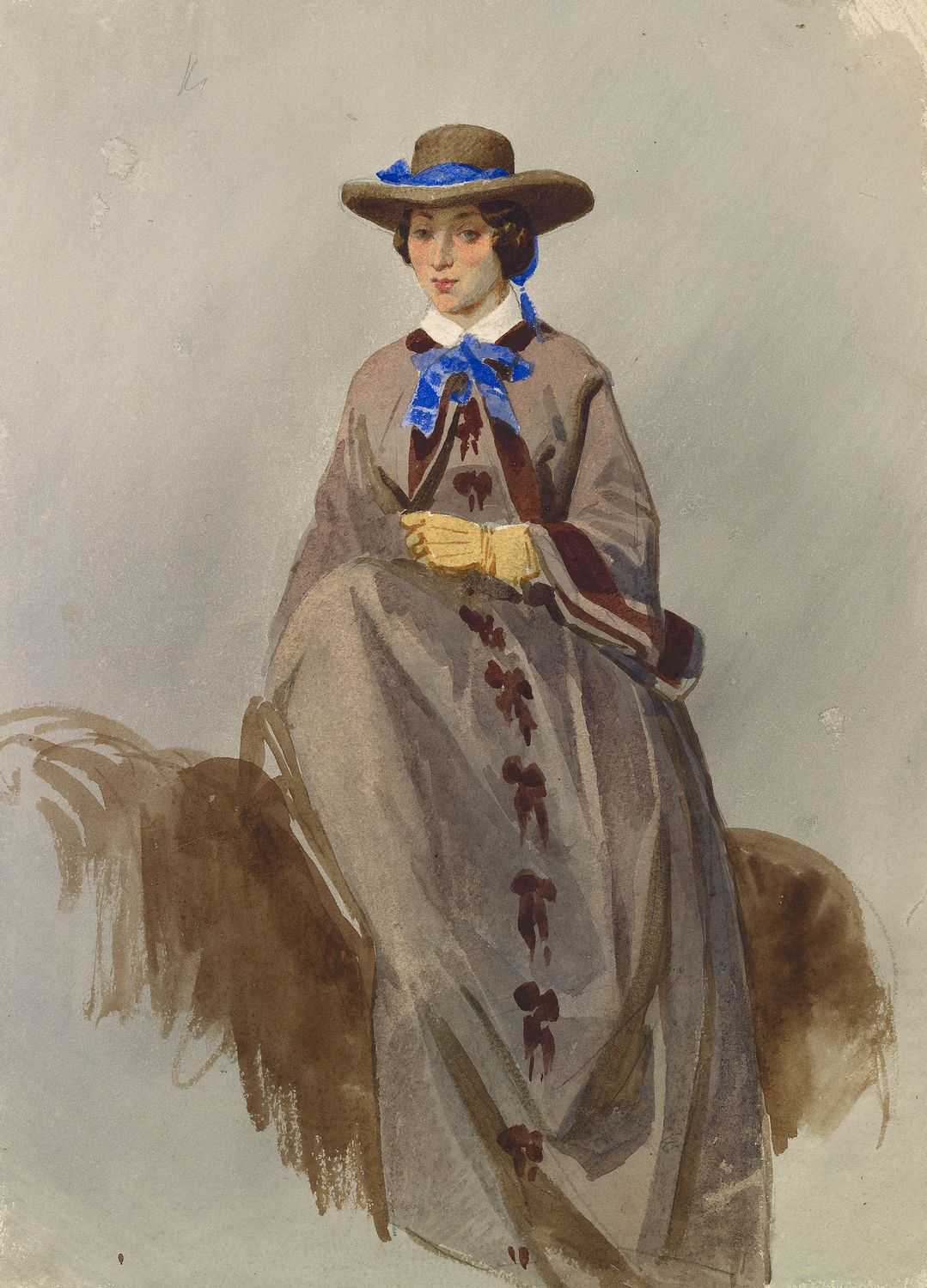 Hon. Mary Bulteel (1832-1916)